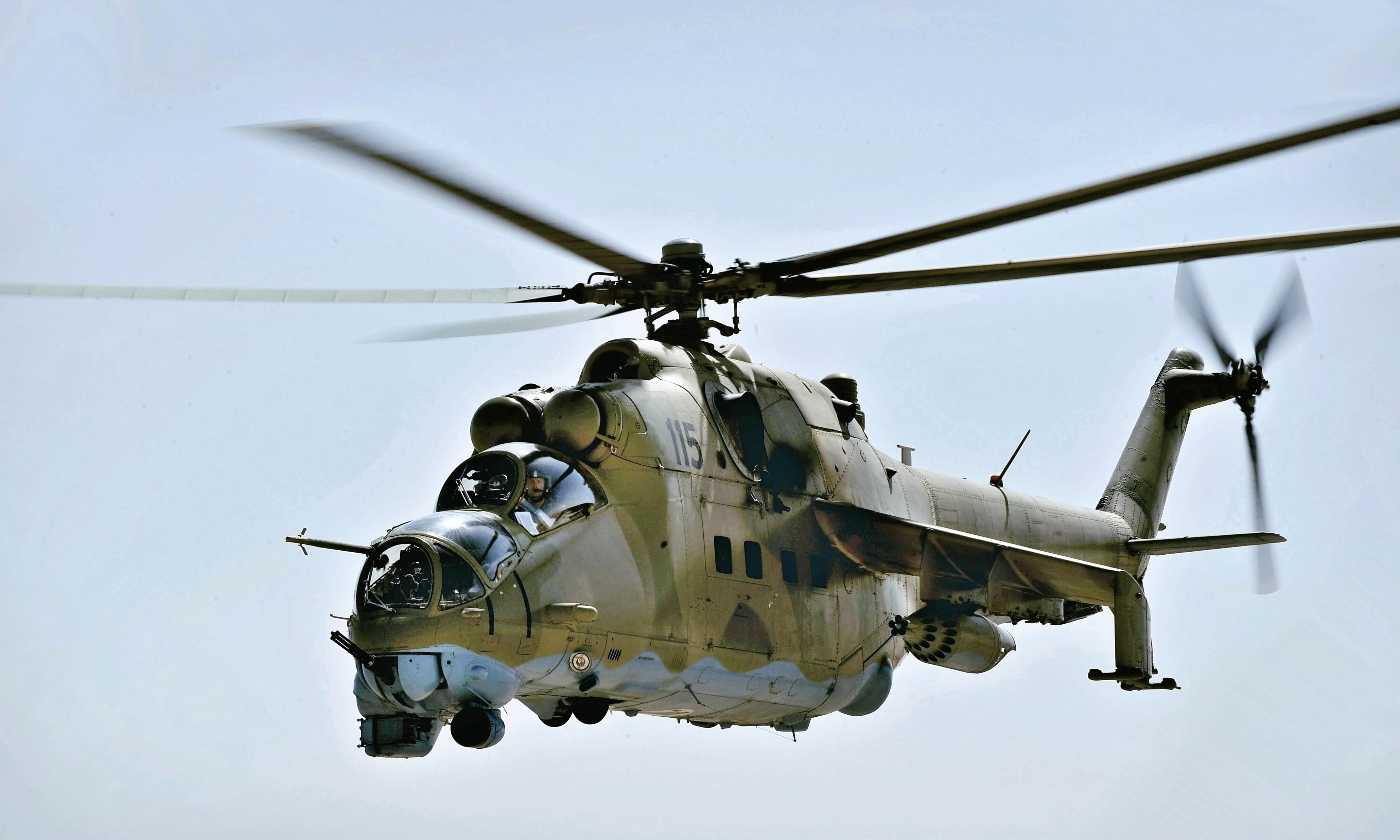 U.S. Airmen from the 438th Air Expeditionary Training Group (AETG) at Kandahar Airfield in Afghanistan mentor Afghans on flying operations Oct. 3, 2009. The goal of the 438th AETG is to help the Afghans build their own air force. (U.S. Air Force photo by Staff Sgt. Angelita Lawrence/Released)